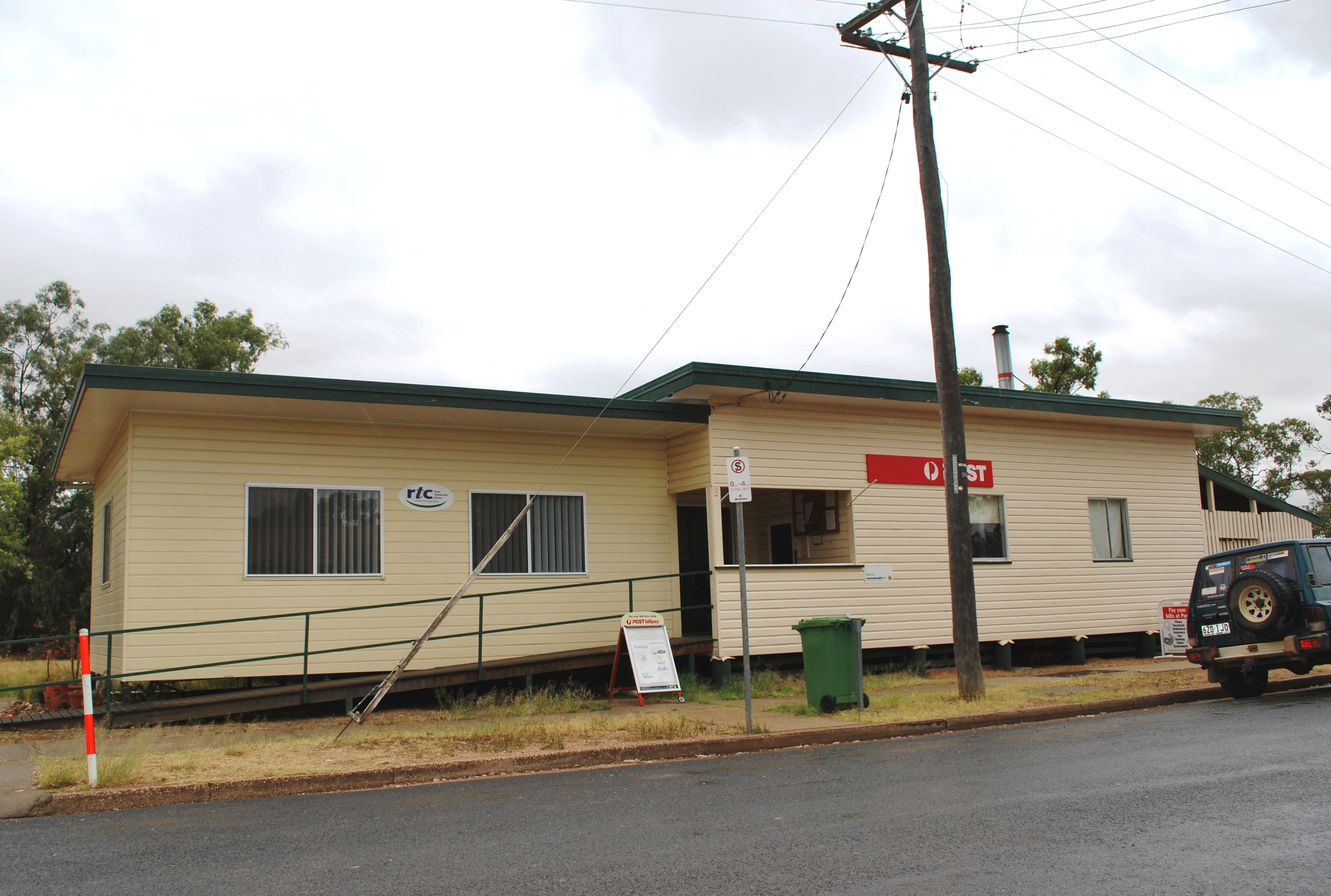 Post office and Rural Transaction Centre at Thallon, Queensland